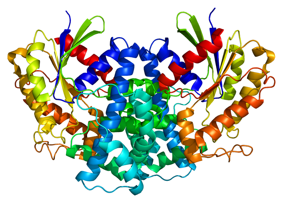 Structure of the GNA12 protein. Based on PyMOL rendering of PDB 1zca.